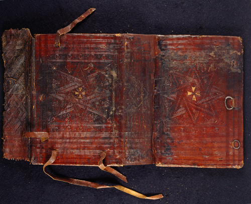 Star|Religious miscellaneous|Coptic; Caption: Upper cover; Colour: Brown; Edge: Unspecified